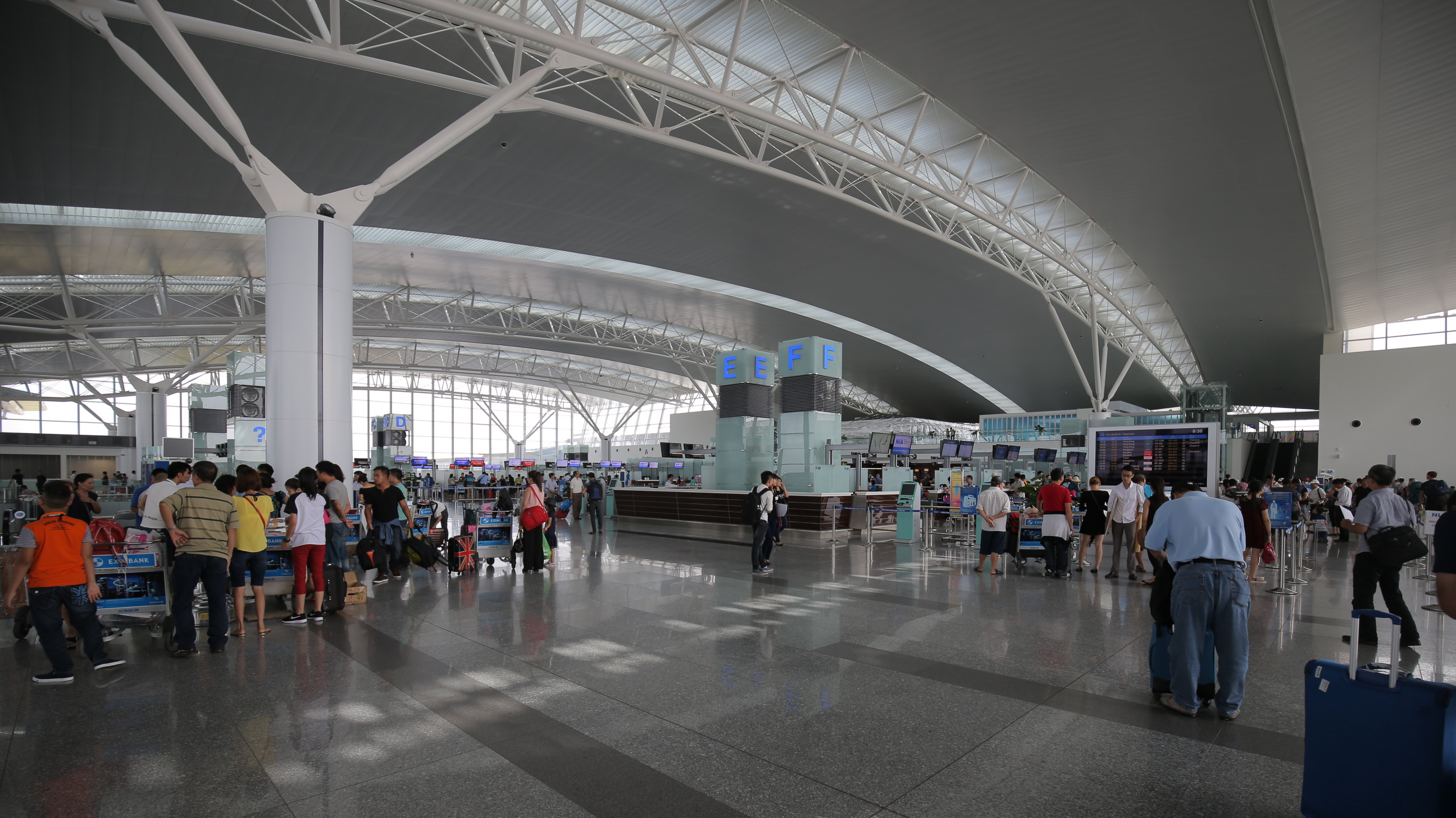 Check-in hall of Noibai International Airport T2 terminal.